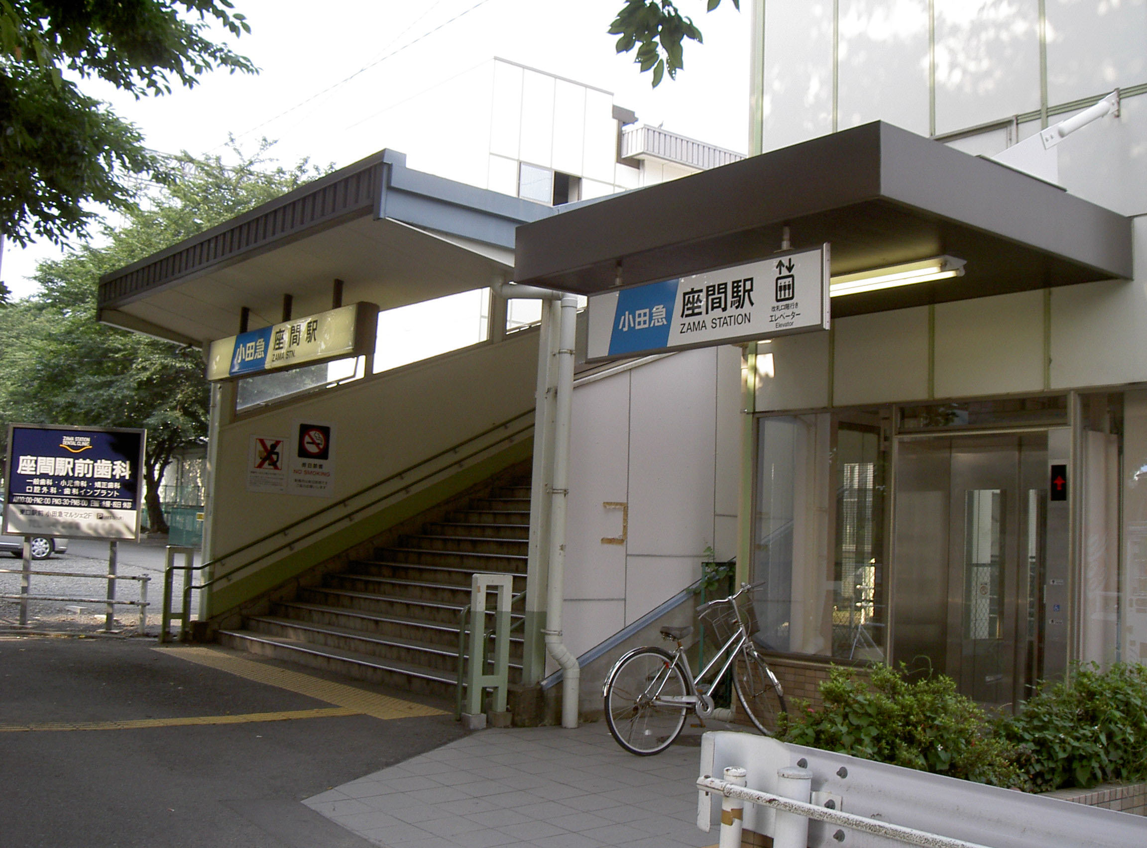 West entrance of Zama station, Odakyu Odawara line ja: 座間駅西口